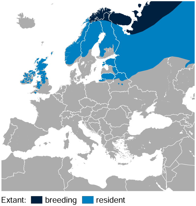 Geographical distribution of the Willow Ptarmigan Lagopus lagopus in Europe. The map was created using the Generic Mapping Tools, GMT, version 5.1.2.